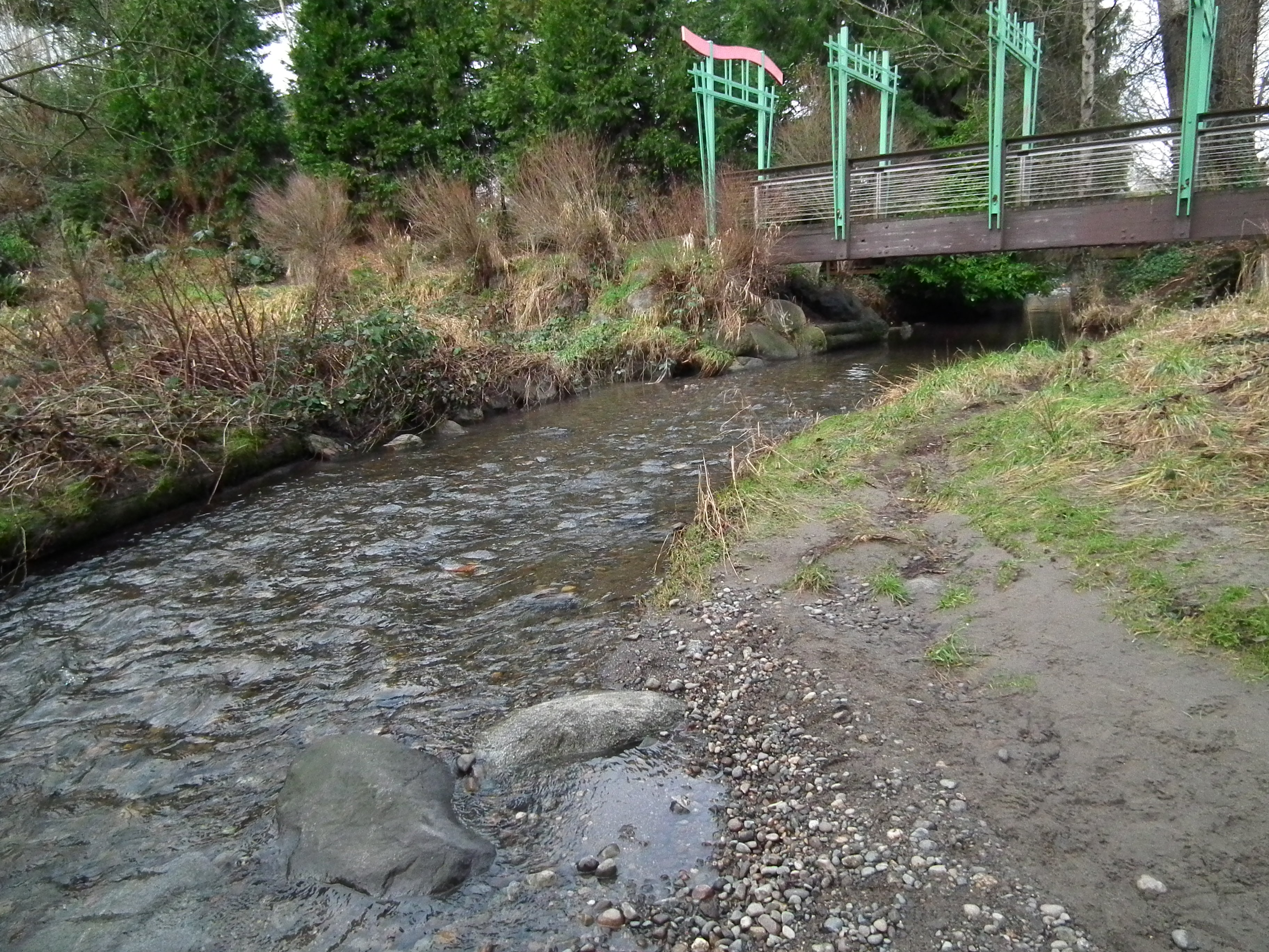 Thornton Creek near Meadowbrook Pond, 35th Ave NE, Seattle, WA, USA.